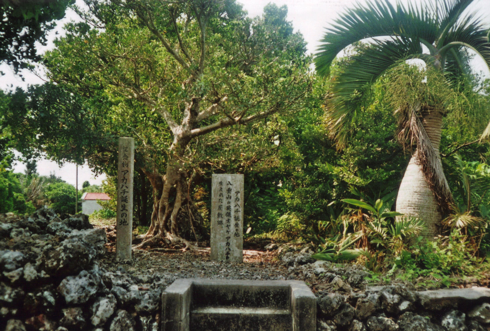 Memorial of Oyake Akahachi, Haterumajima, Okinawa Ken, Japan